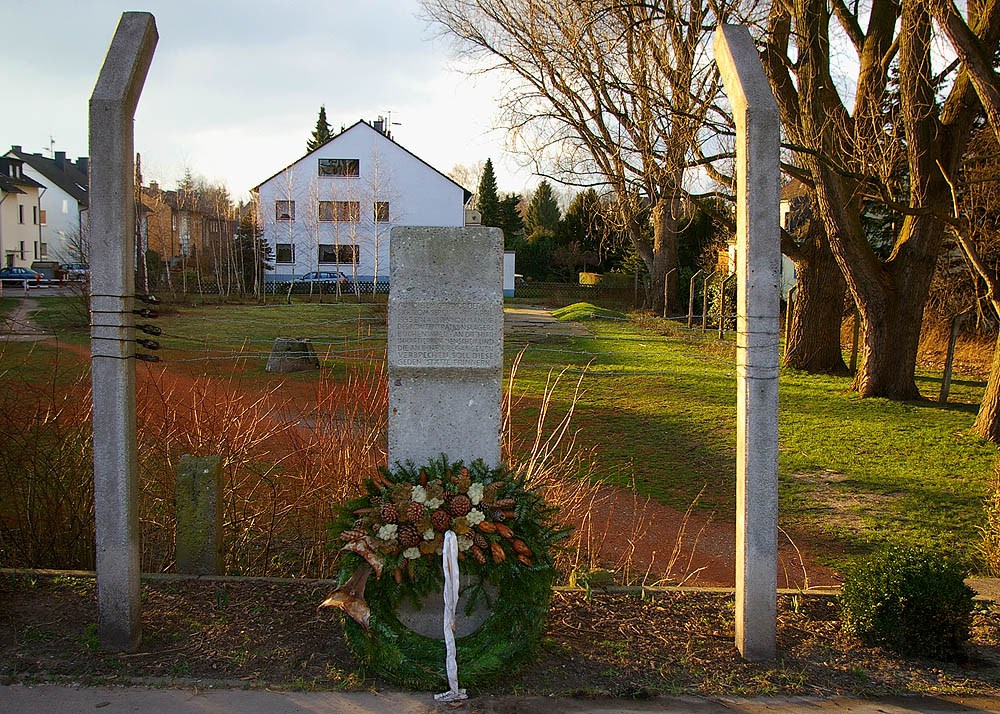 Monument by Anselm Treese to the victims of Annen labor camp, a subcamp of Buchenwald at the corner of Westfeldstraße and Immermannstraße in the Annen neighborhood of Witten, Germany. The obelisk lies on the perimeter where the fence of the labor camp once stood. Since the 1950s, houses were built on the land and, of the camp, there is only a small portion of open space left, seen behind the obelisk. This remaining space will not be developed, rather is to be kept as a reminder of the victims.